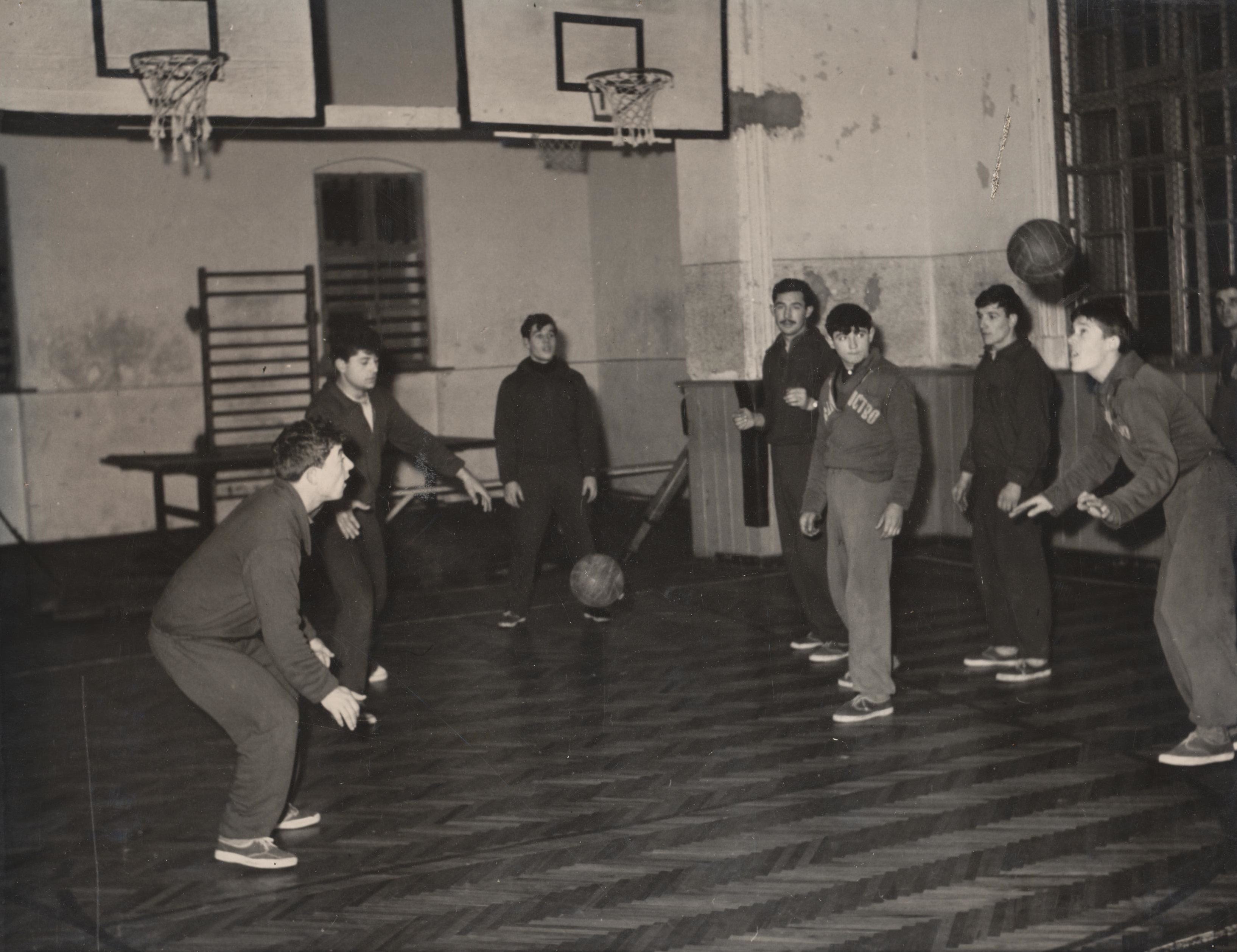 FC Radnicki Pirot on training in 1963